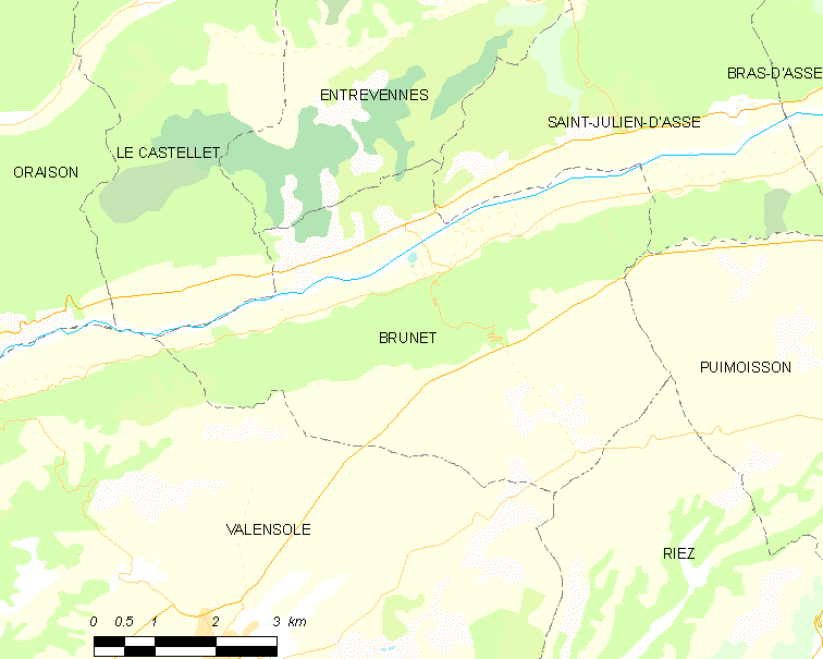 Map commune FR insee code 04035.png Légende